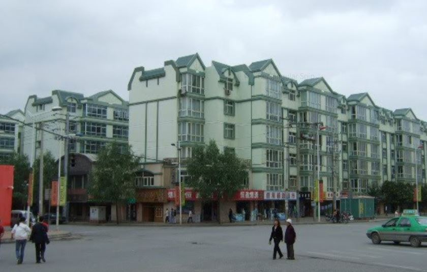 Apartment blocks, near Guo Ji Cun, Xining, China